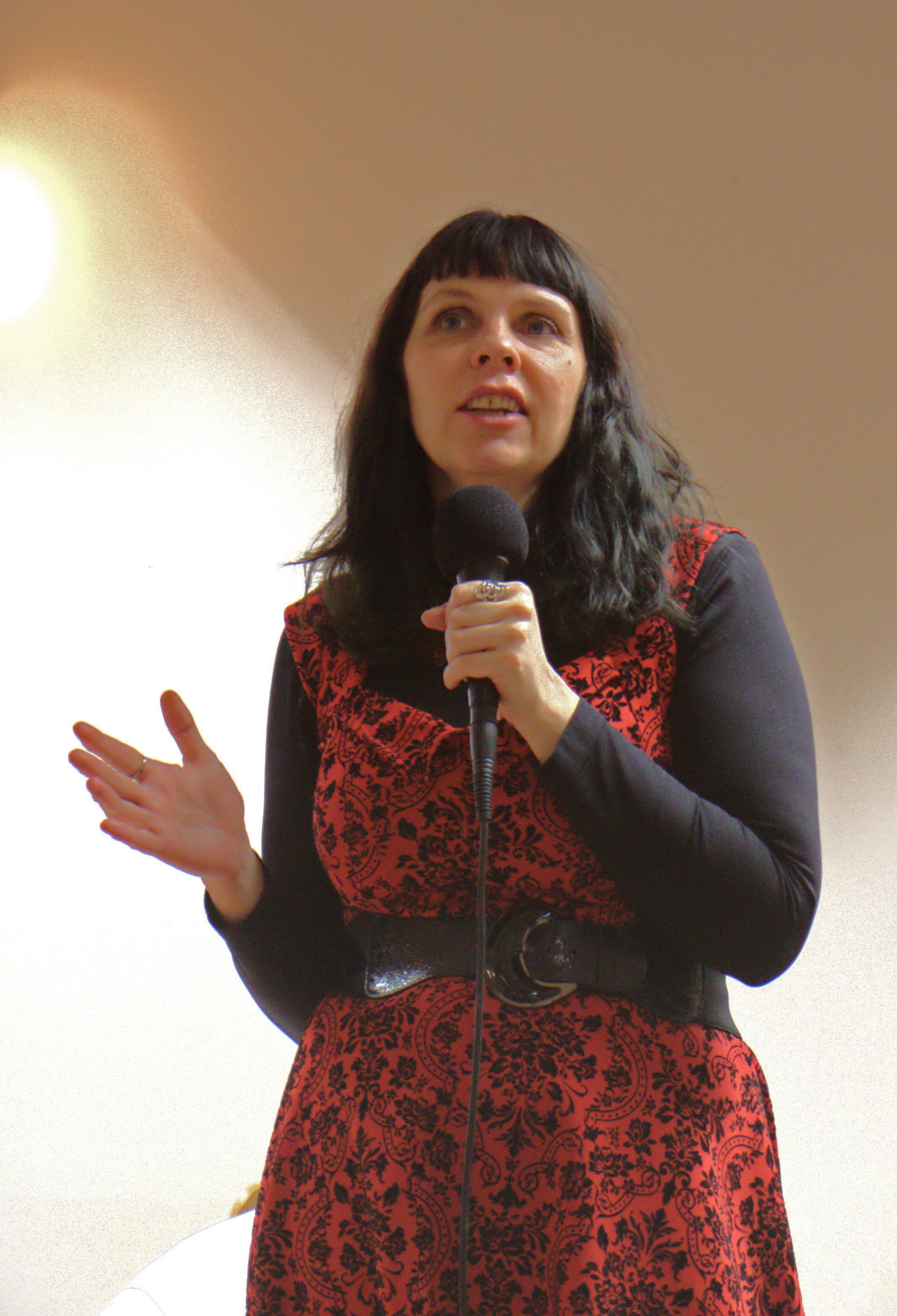 Icelandic MP Birgitta Jónsdóttir during her visit to the Czech Republic in January 2015